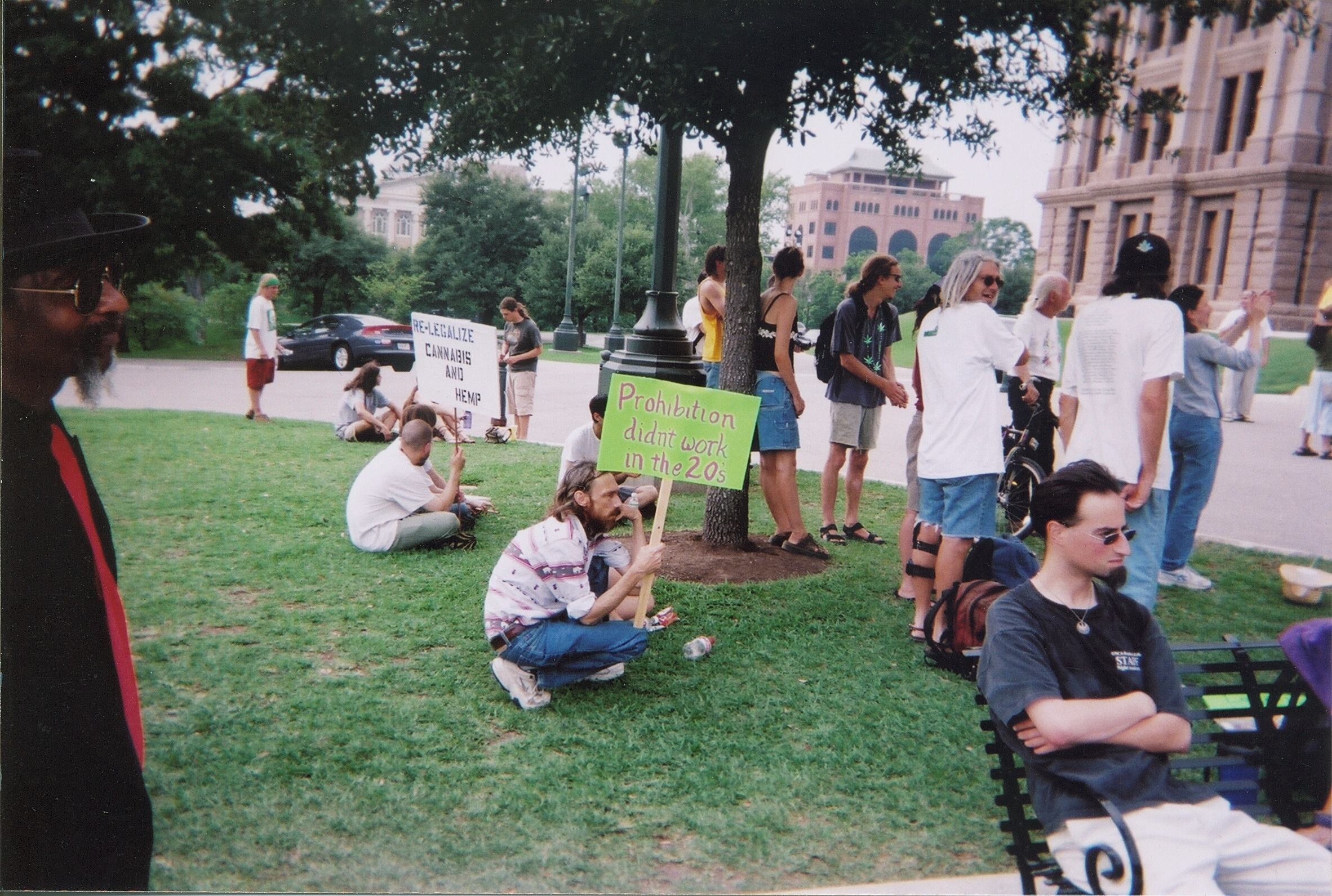 Early bird protesters and curious onlookers at the State Capital Building in Austin Texas about the legalization of marijuana.